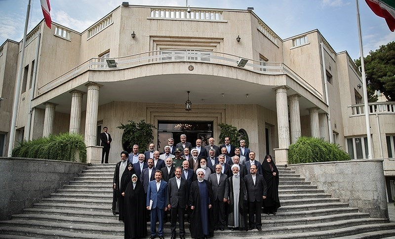 Last photo of Iranian President Hassan Rouhani's first government in their last meeting